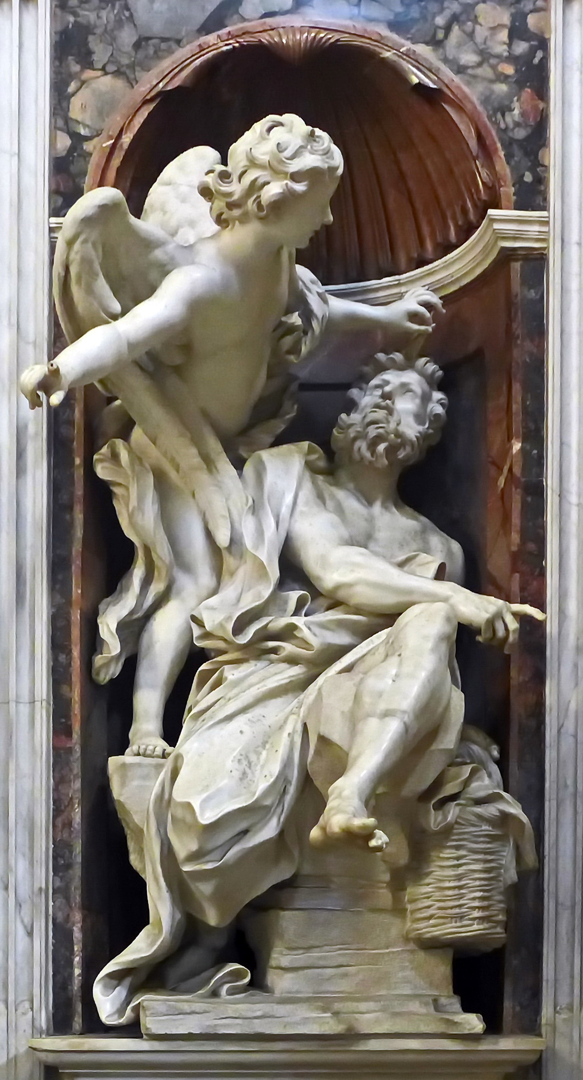 Santa Maria del Popolo Chigi Chapel Bernini Habakuk